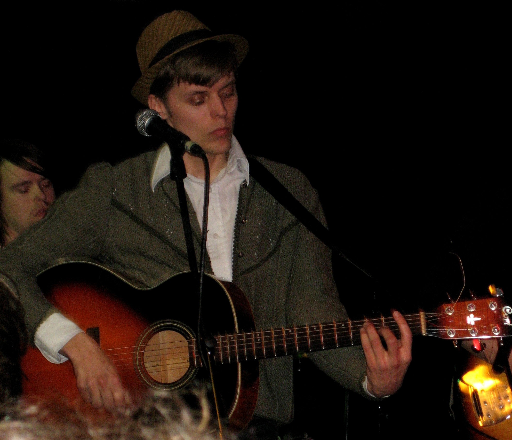 Mattias Björkas of Finnish pop group Cats on Fire at Copenhagen Popfest 2010.